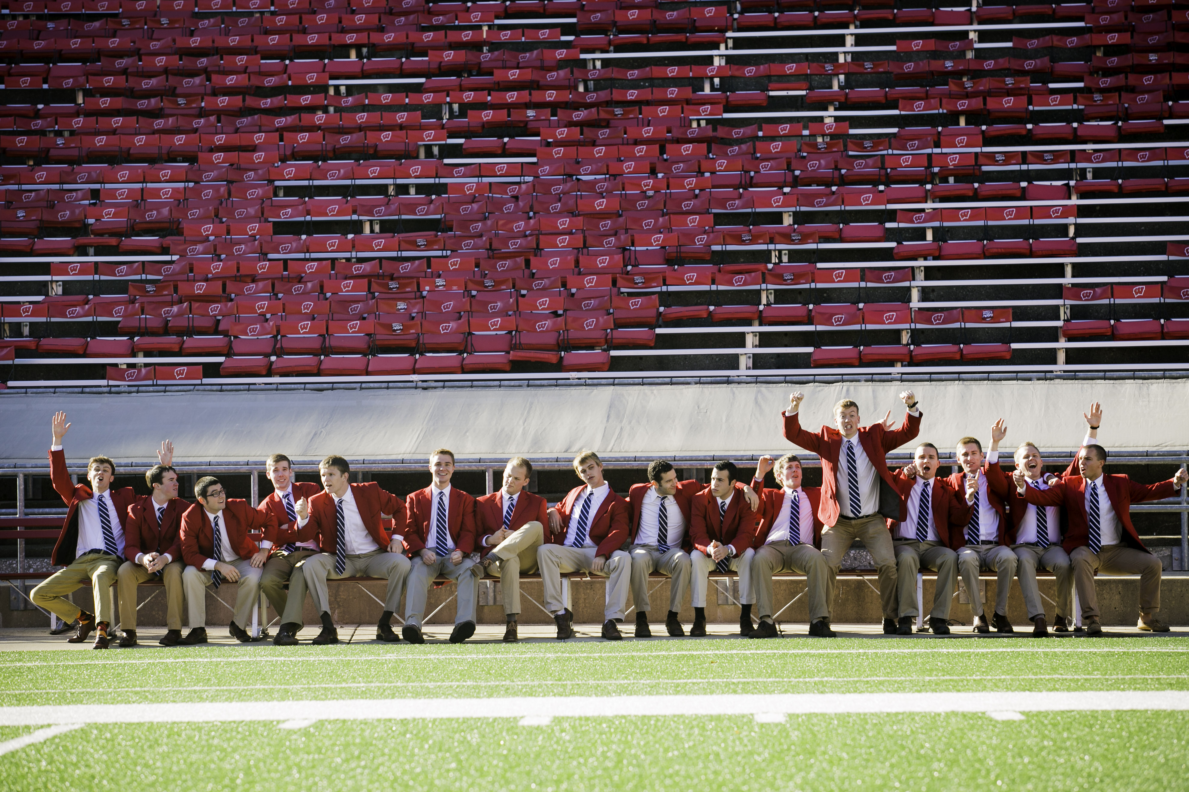 The UW MadHatters in Fall 2013